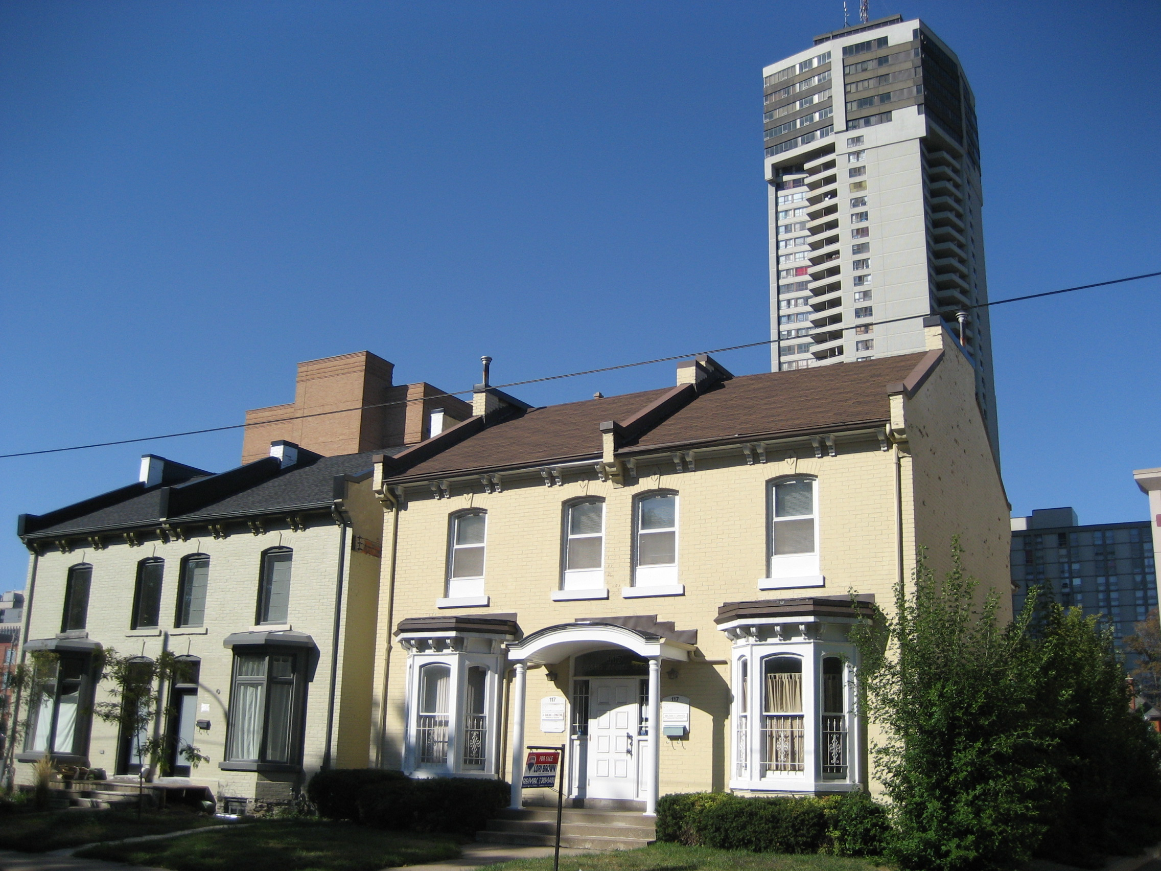 Hunter Street East, downtown Hamilton